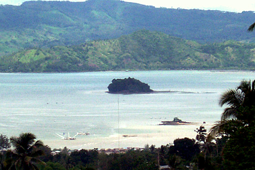 Inner part of Pagadian Bay, the Big Dao-dao island (Dao-dao Dako) on the center and the smaller Dao-dao Gamay Island on the right foreground.